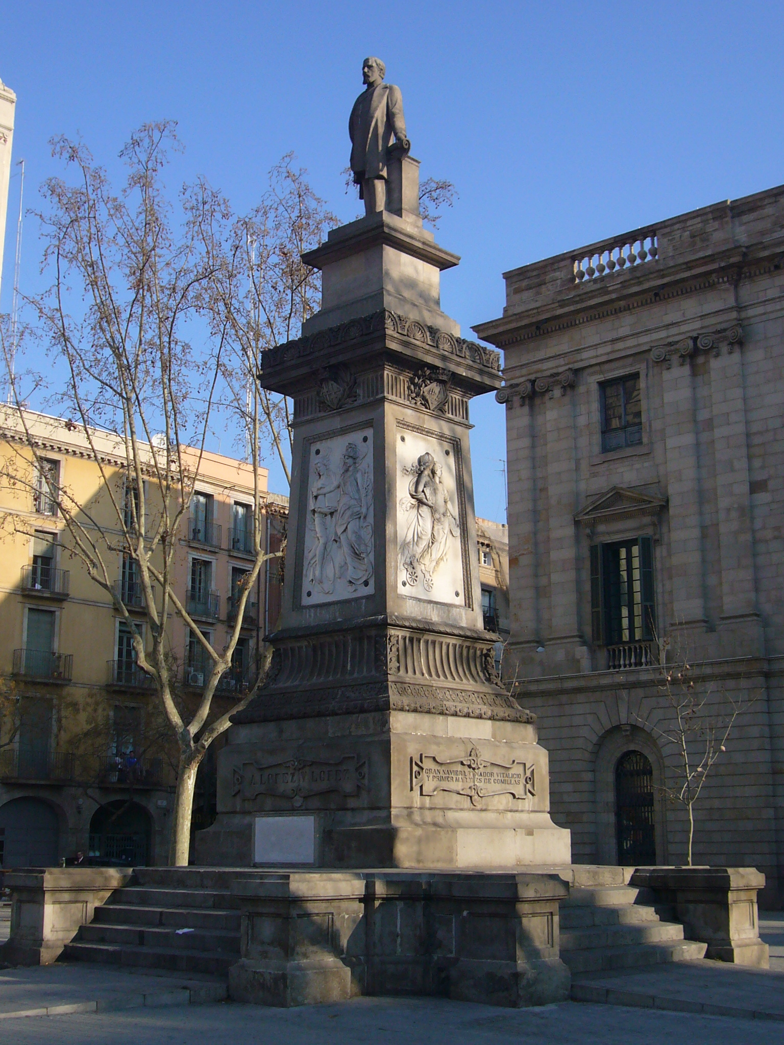 A López y López